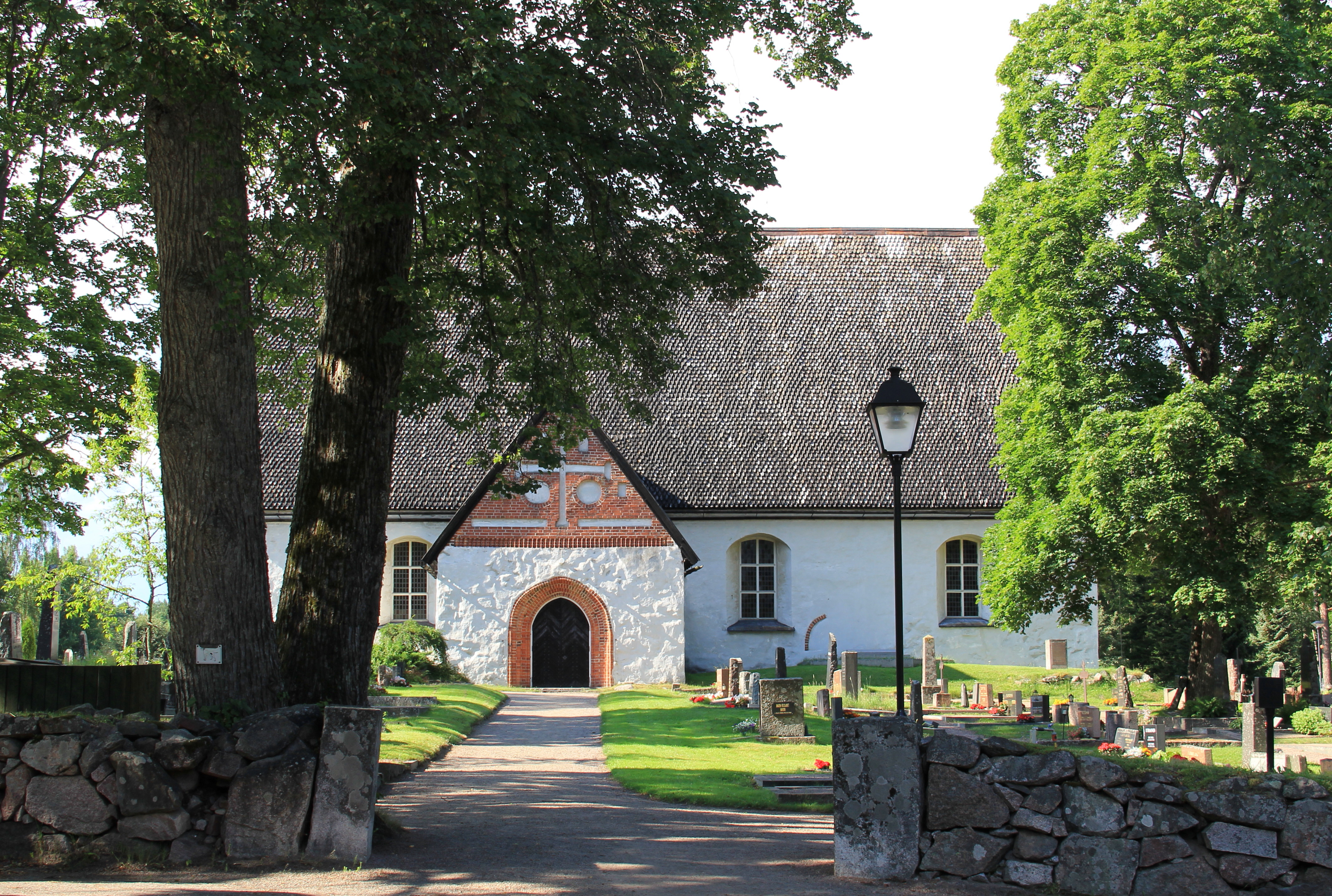 Pernå church, Pernå, Loviisa, Finland. Built presumably between 1410-1440 by Master of Pernå. - Seen from south.